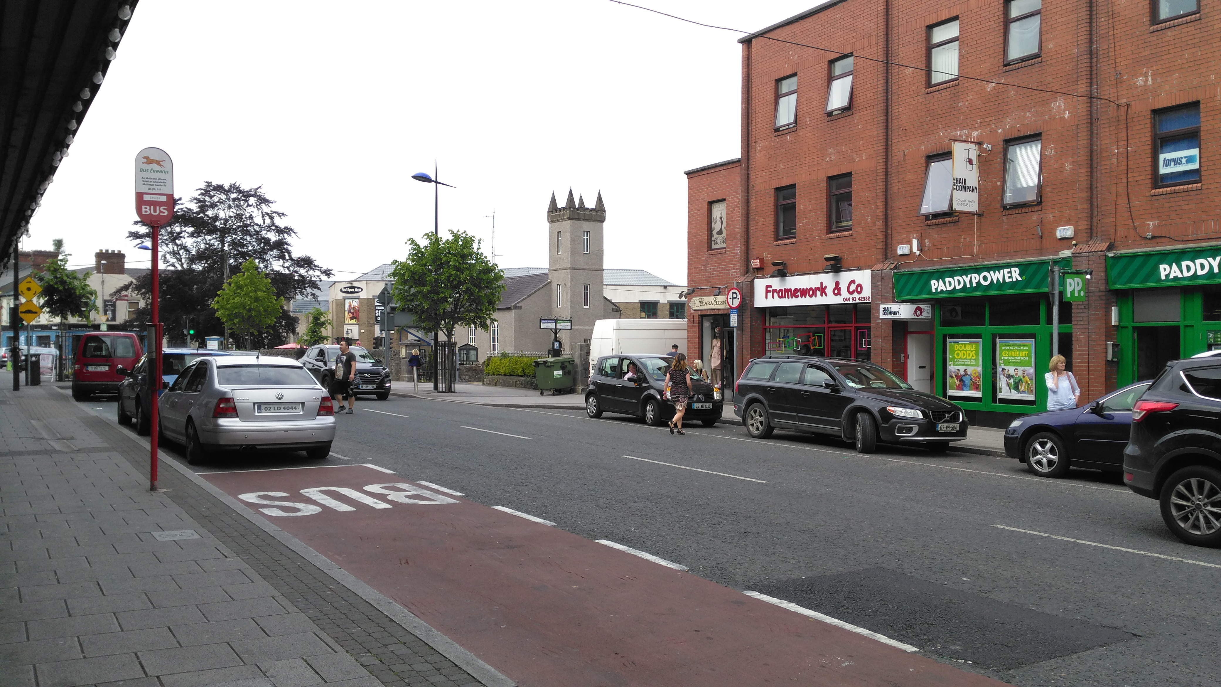 View of the Church restuarant and Harbour Place Shopping Centre on Castle Street, one of Mullingar's 'high streets'